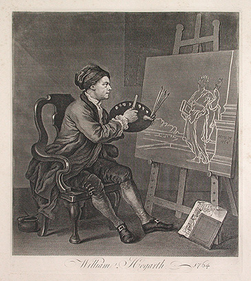 Hogarth painting the Muse